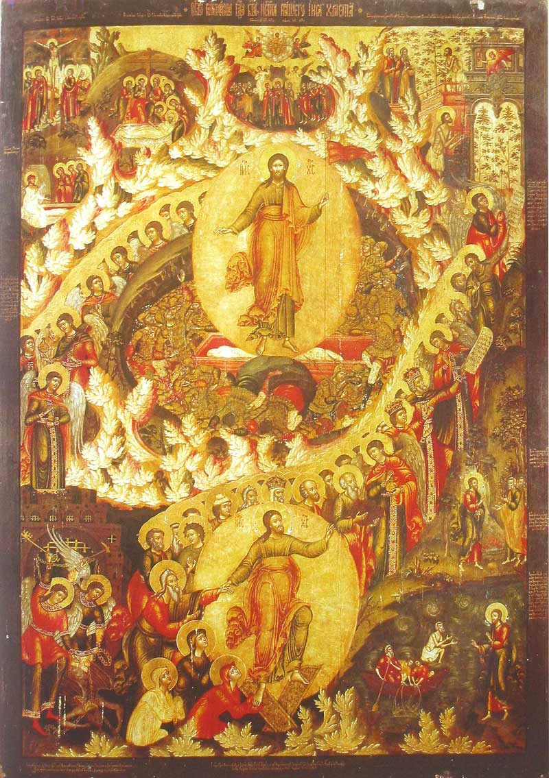 Resurrection and Descent to Hell. Russian icon